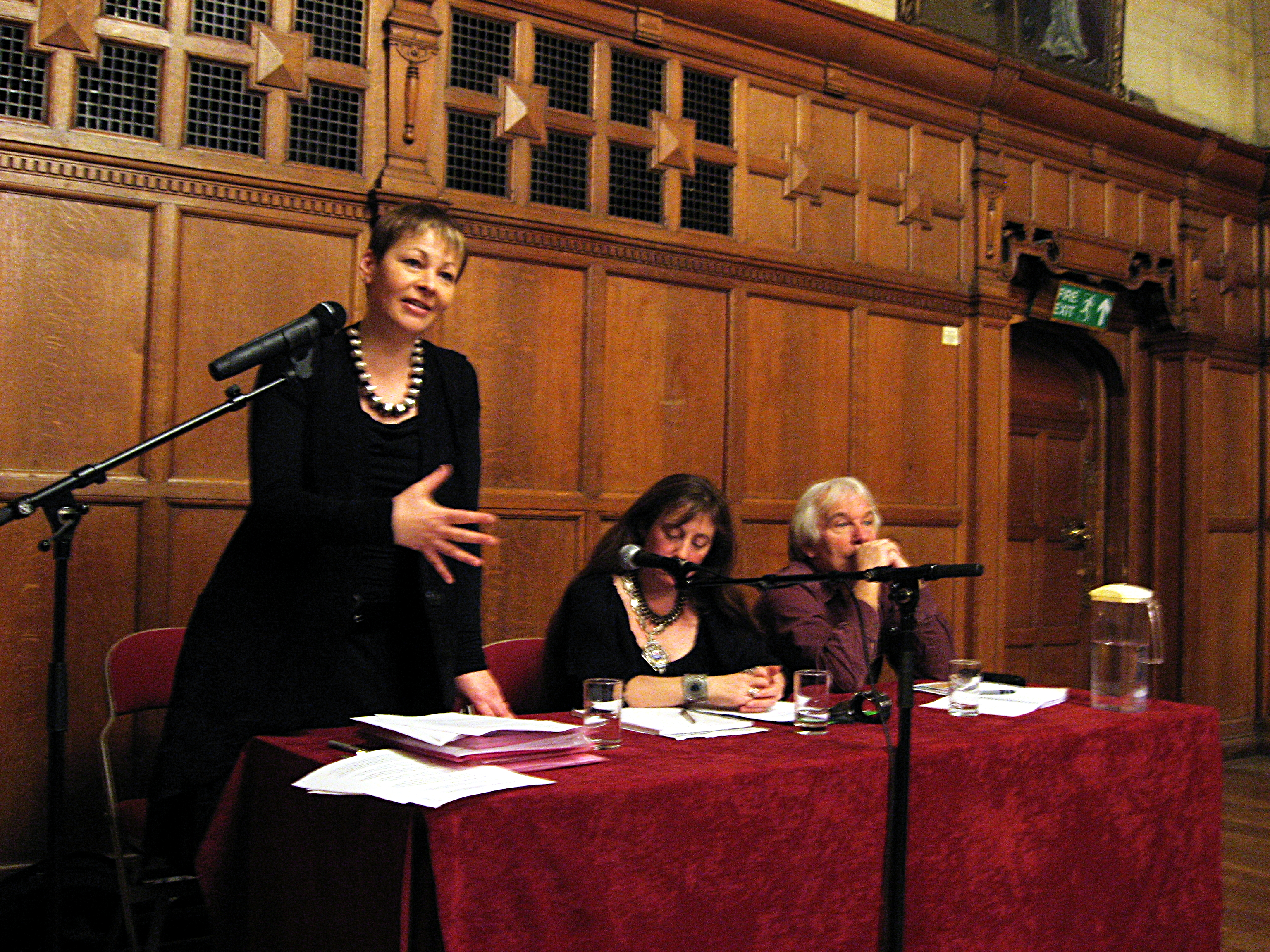 Caroline Lucas MEP, Elise Benjamin (Deputy Lord Mayor), and Colin Hines discussing the Green New Deal in Oxford.